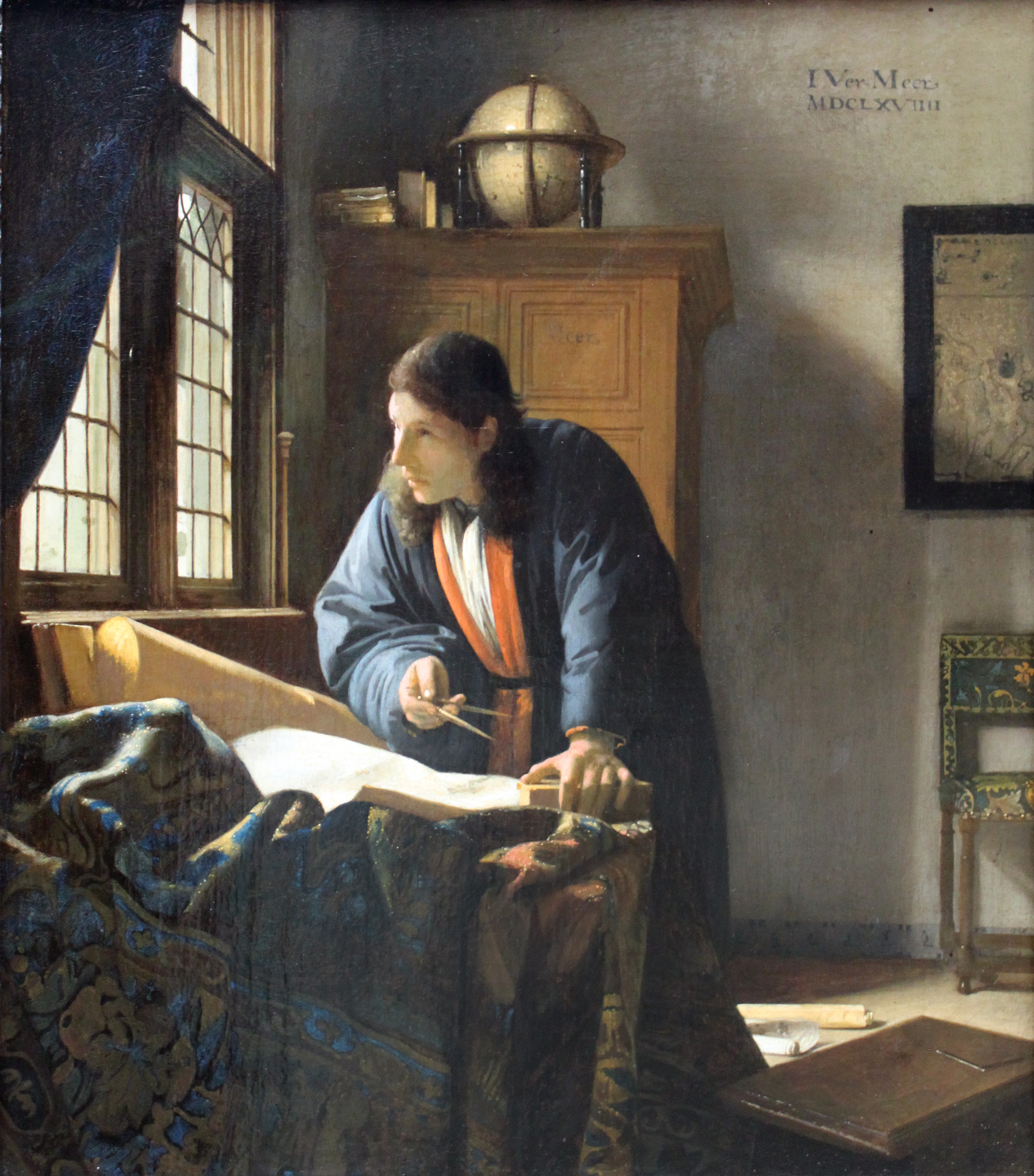 The Geographer